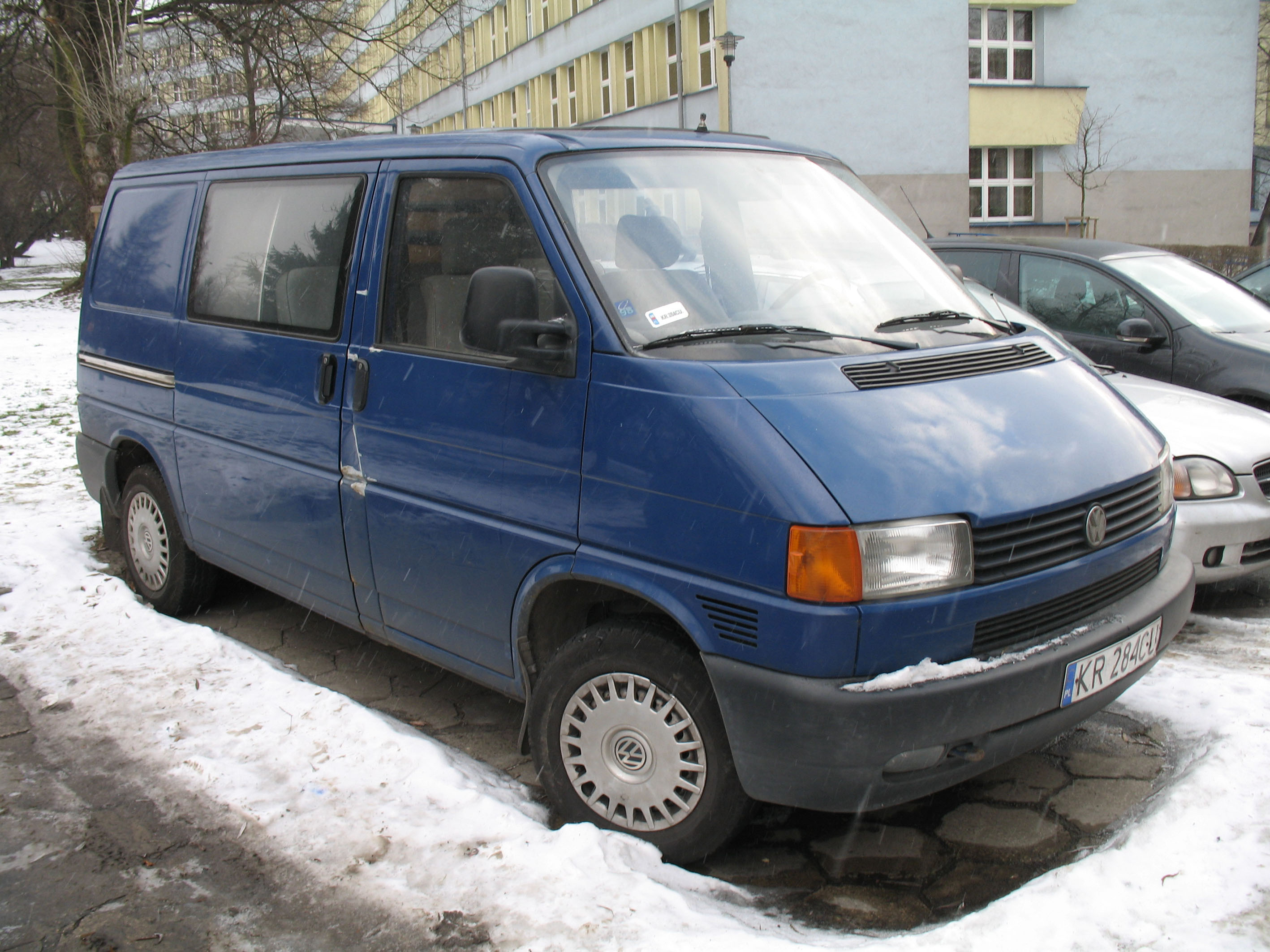 Blue Volkswagen Transporter T4 in Kraków, Poland.